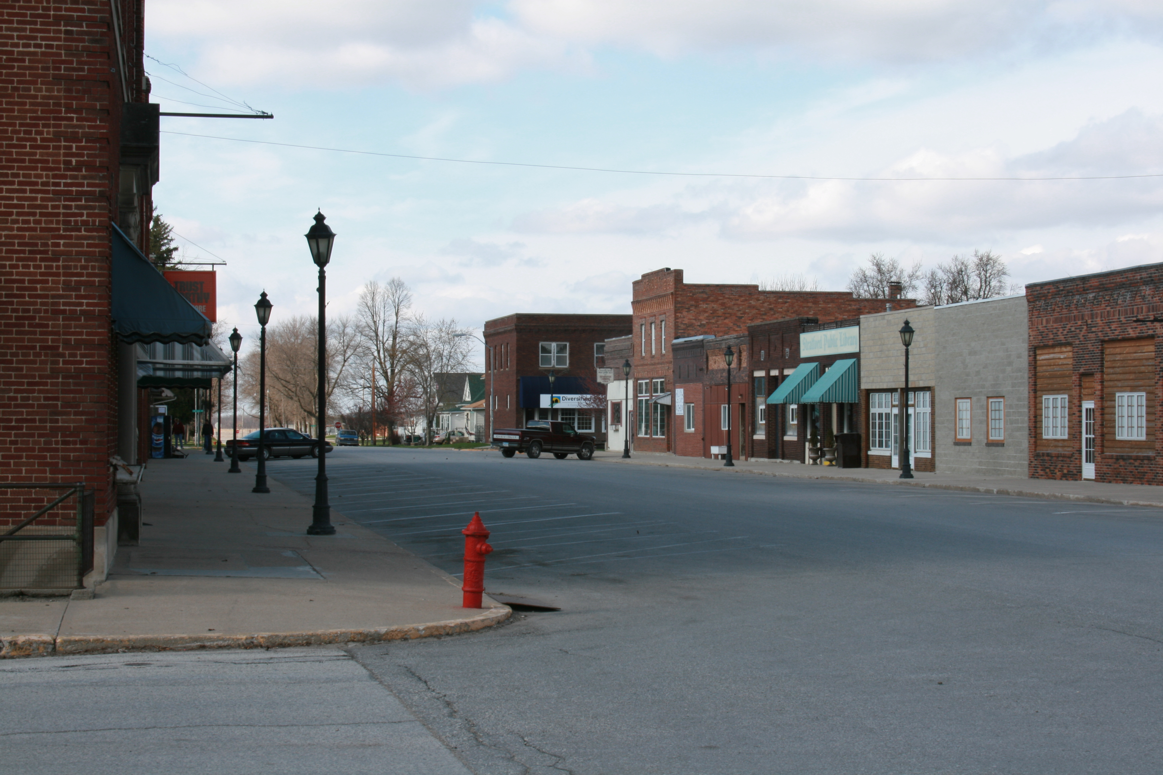 Downtown Stratford, Iowa